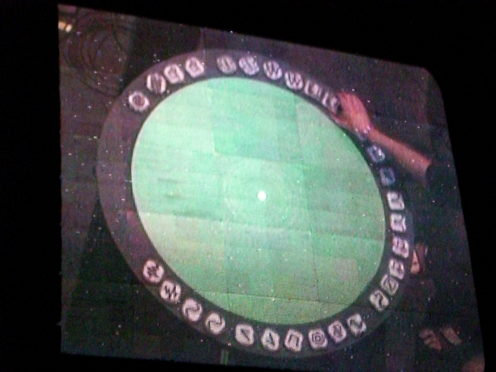 Bjork's deejay fellow had this cool synth thing, called a reactor or something. Really awesome shit.